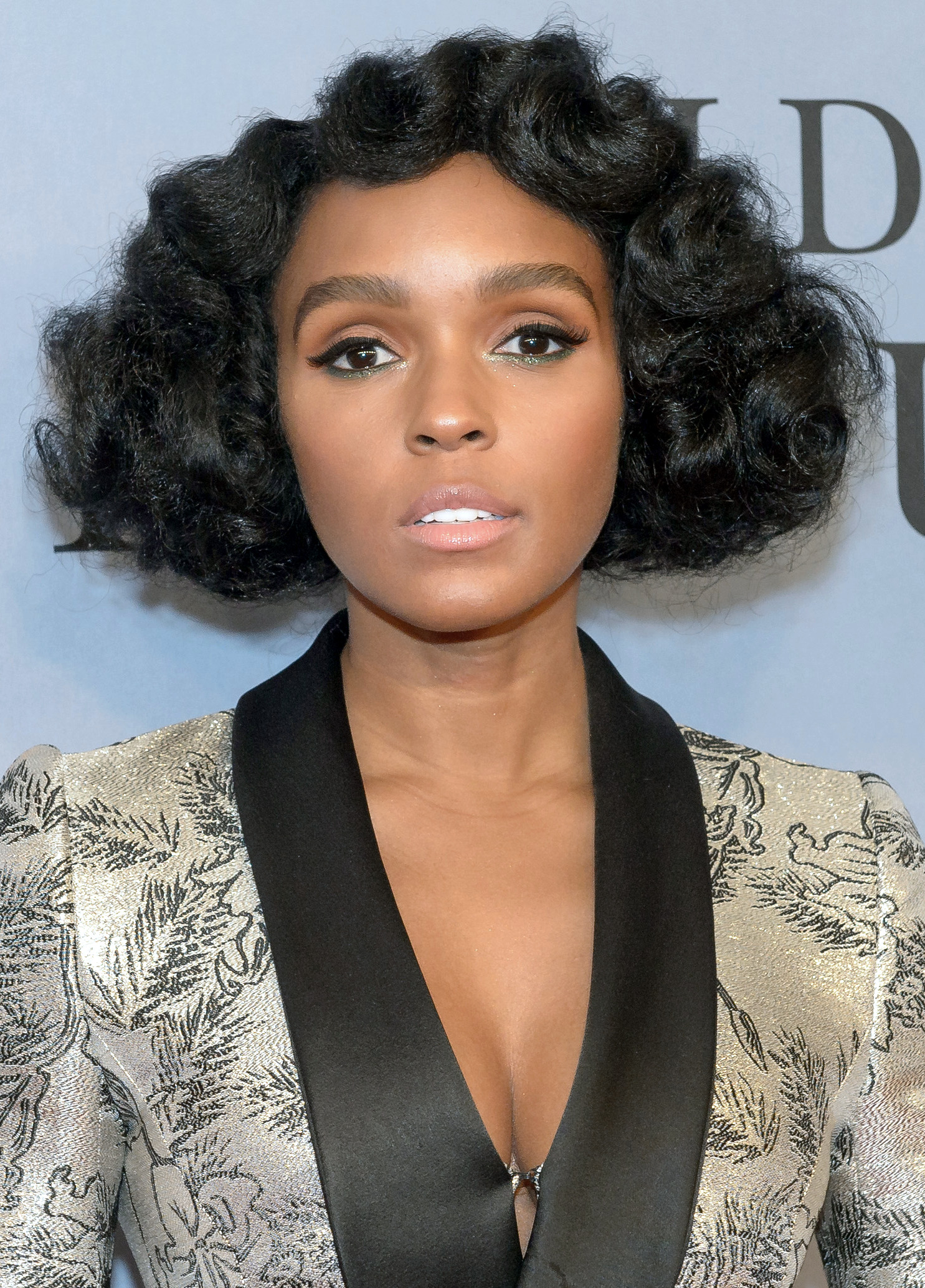 American musical recording artist, actress, and model Janelle Monáe arrives on the red carpet for the global celebration of the film "Hidden Figures" at the SVA Theatre, Saturday, Dec. 10, 2016 in New York. The film is based on the book of the same title, by Margot Lee Shetterly, and chronicles the lives of Katherine Johnson, Dorothy Vaughan and Mary Jackson -- African-American women working at NASA as “human computers,” who were critical to the success of John Glenn’s Friendship 7 mission in 1962.